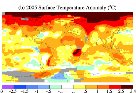 Global annual surface temperature in 2005, relative to 1951-1980 mean. Data based on surface air measurements at meteorological stations and ship and satellite measurements for sea surface temperature.